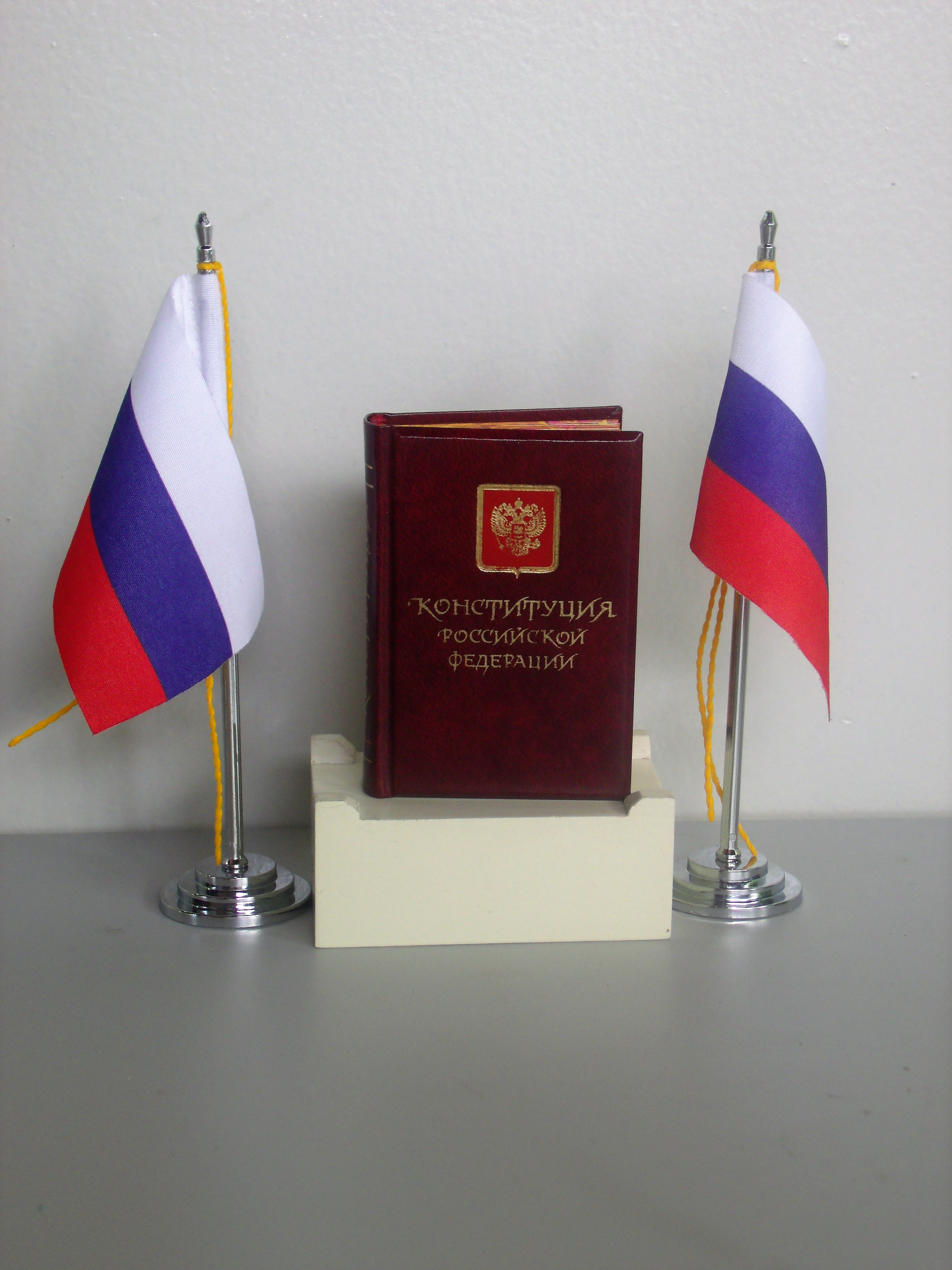 Constitution of Russia (miniature book).